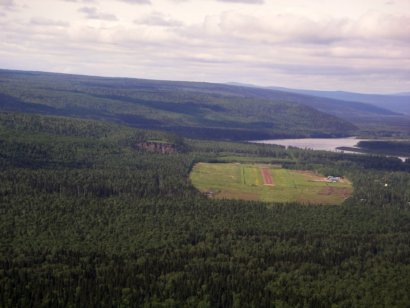 Final runway 03 Fort Liard